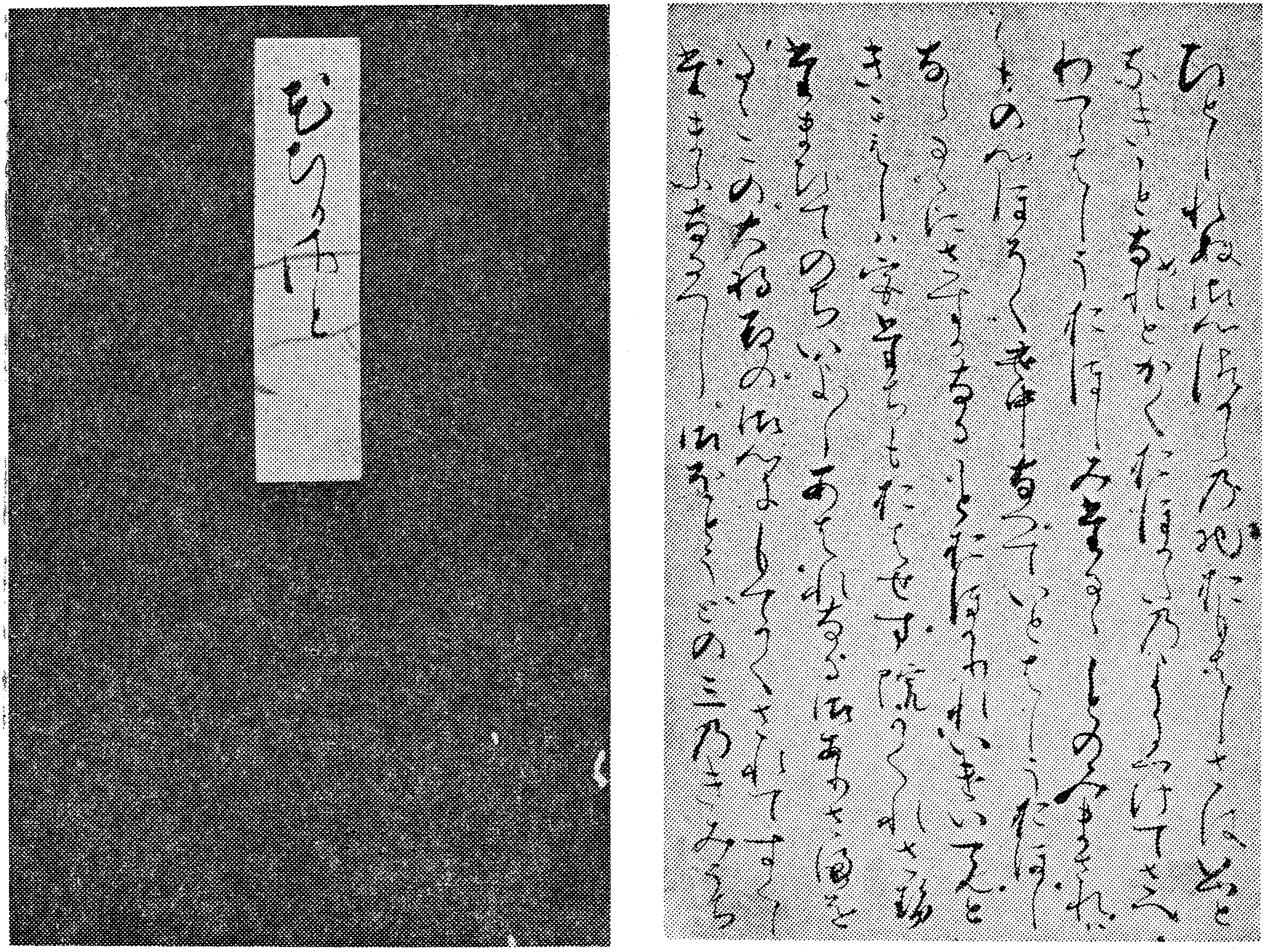 Codex of "The Tale of Genji", probably copied under the supervision of Fujiwara no Teika, Vol. "Hanachirusato".